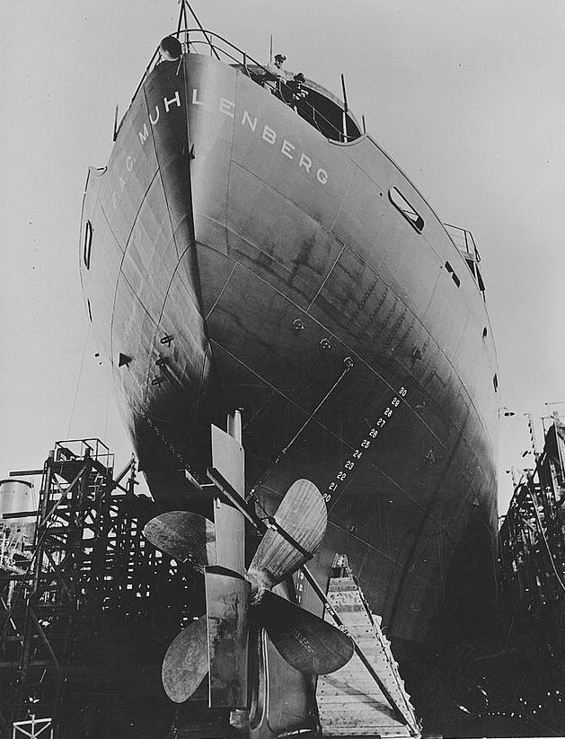 Construction of a Liberty ship at California Shipbuilding Corporation, Los Angeles, California (USA) in June 1943. The rudder and propeller of the Liberty SS F.A.C. Muhlenberg.Original caption: “The rudder and propeller of an EC-2 Liberty ship prior to her launching at a West coast shipyard.”